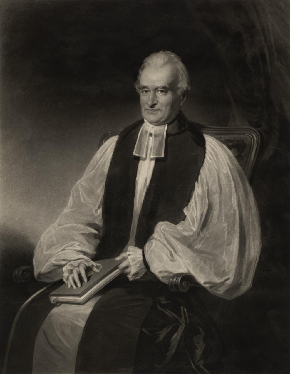 A portrait from the Welsh Portrait Collection at the National Library of Wales. Depicted person: Christopher Bethell – British bishop